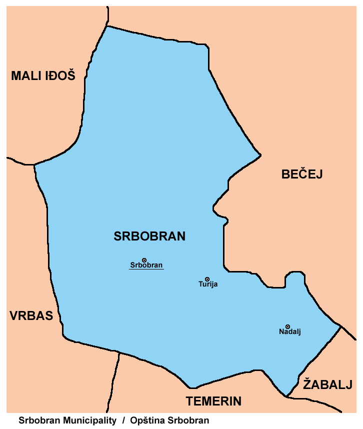 Map of Srbobran municipality. Mapa opštine Srbobran.